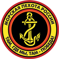 Russian Marines logo (not official).